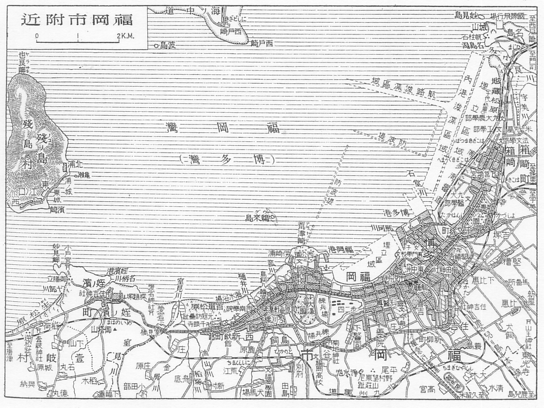 Fukuoka map circa 1930